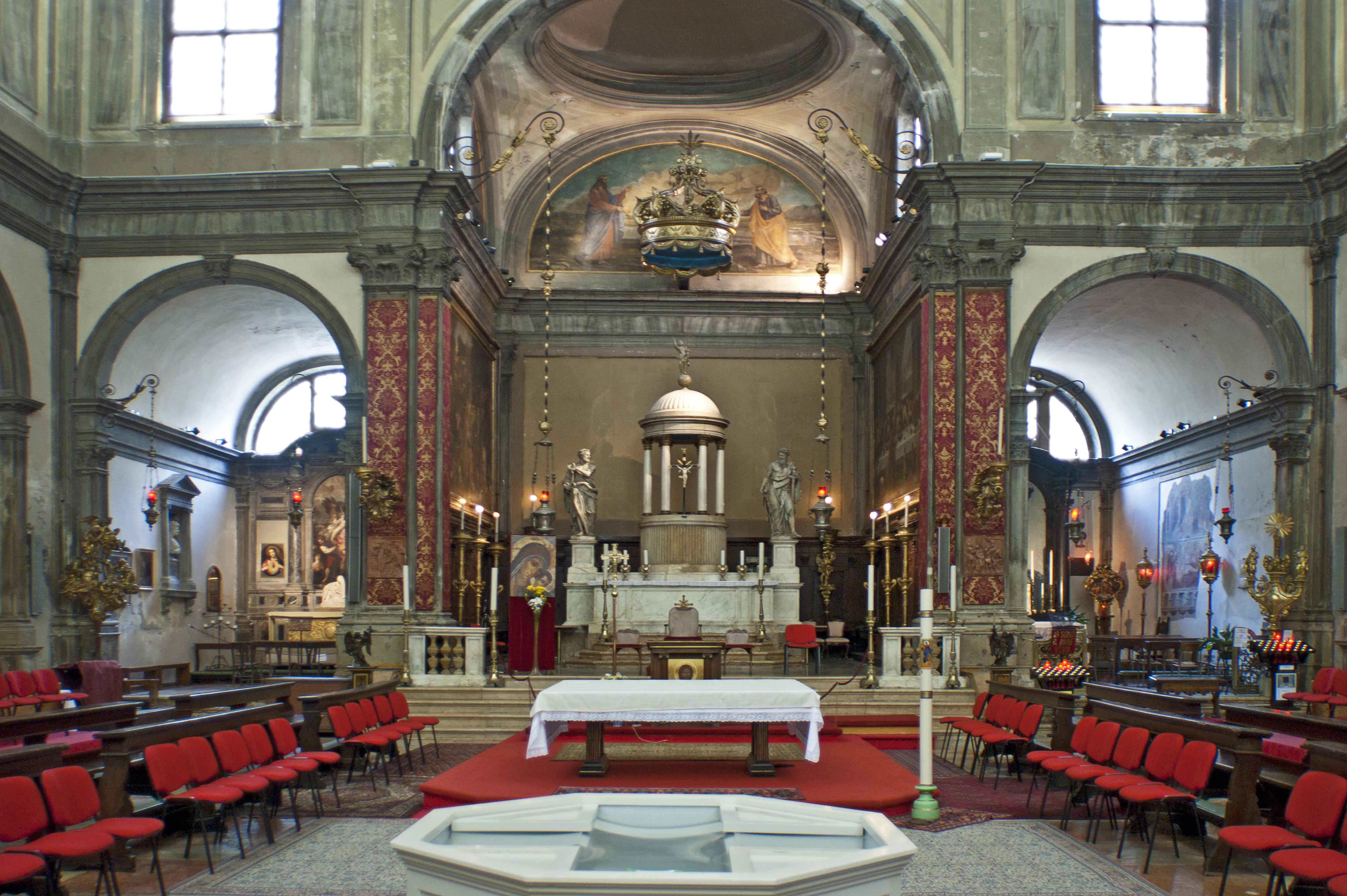 Church of Santi Apostoli in Venice (Italy). Interior view